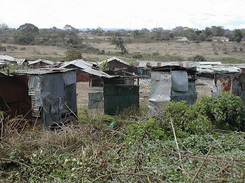 One of the worst slums that our group visits and brings food and supplies to (we didn't go much past this point, but met with some of the people who live there near the entrance). File size :403.7KB(413384Bytes) Date taken :0000/00/00 00:00:00 Image size :1600 x 1200 Resolution :300 x 300 dpi Number of bits :8bit/channel Protection attribute :Off Hide Attribute :Off Camera ID :N/A Camera :E775 Quality mode :NORMAL Metering mode :Matrix Exposure mode :Programmed auto Speed light :No Focal length :12.3 mm Shutter speed :1/663.1second Aperture :F4.0